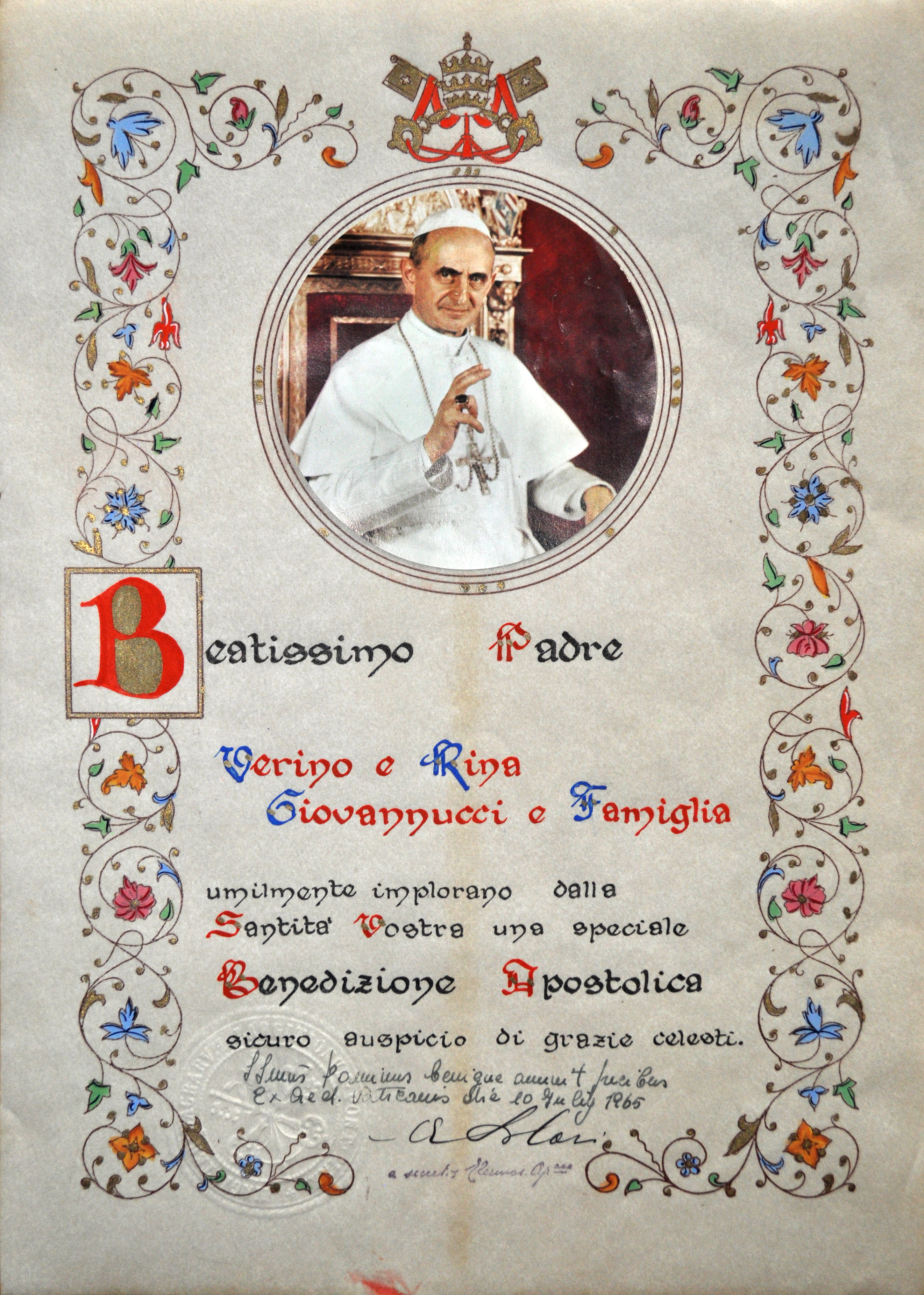 Apostolic Blessing Parchment 1965 July 10 Pope Paul VI to Verino and Rina Giovannucci and Family